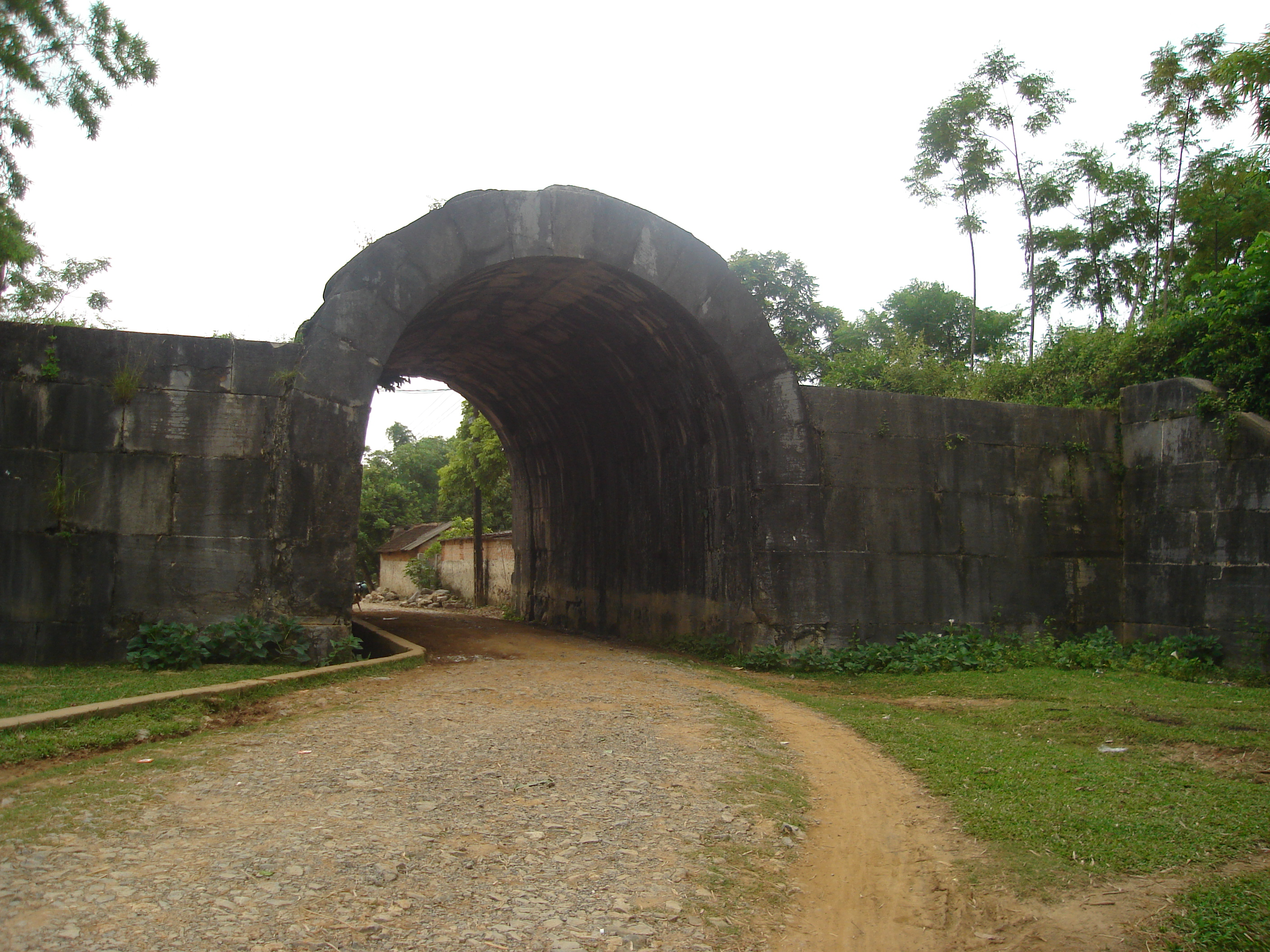 The east (left) gate of Tay Do castle, Thanh Hoa Province, Vietnam